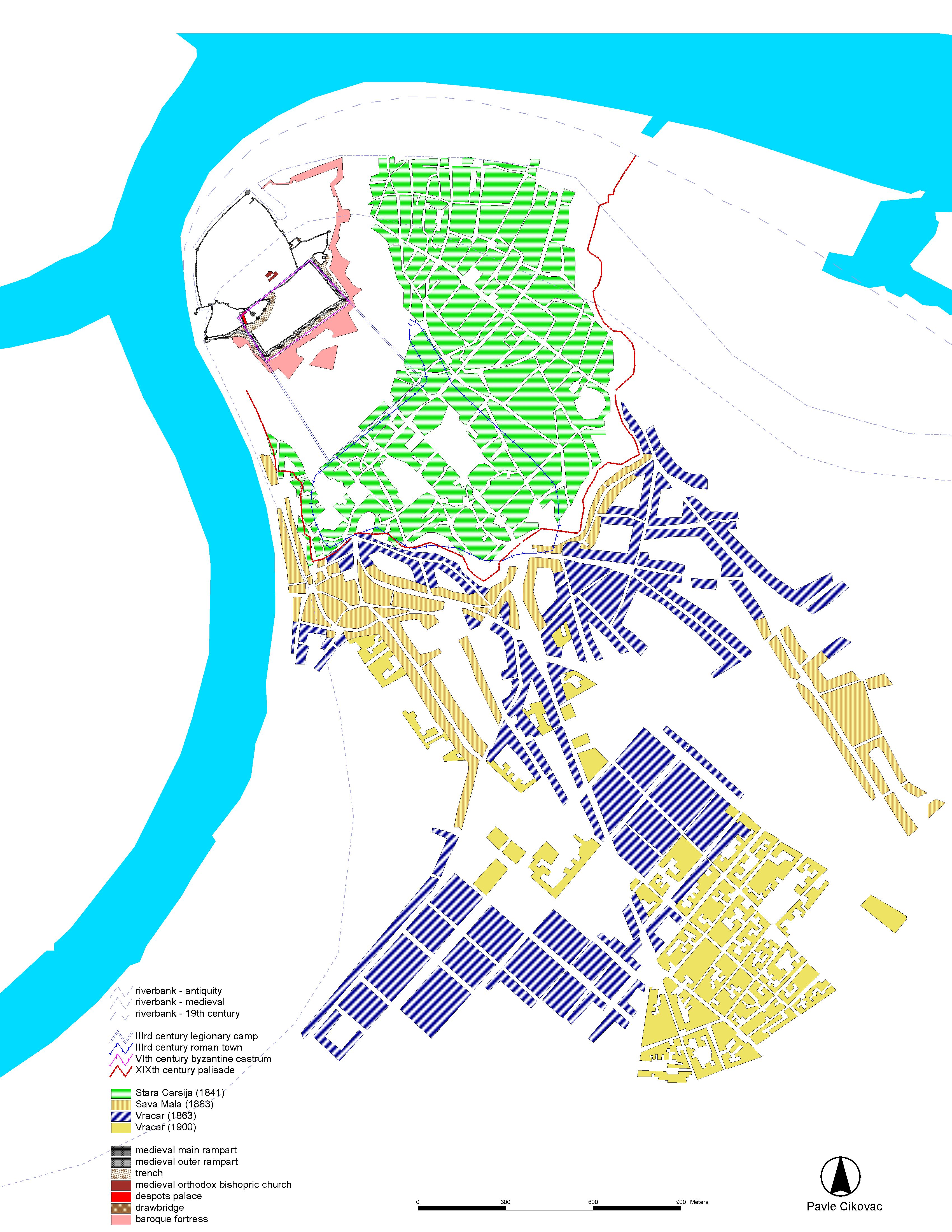 Urban development during the 19th century of Belgrade from the old osmanic town to the national capital of Serbia